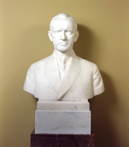 Calvin Coolidge by Moses A. Wainer Dykaar (1884 - 1933) Marble, Modeled 1924/1925, Carved 1927 Overall (bust) measurement Height: 27 inches (68.6 cm) Width: 23 inches (58.4 cm) Depth: 12 inches (30.5 cm) Signature (on subject's truncated left arm): MOSES W. DYKAAR / 1927 Cat. no. 22.00029.000